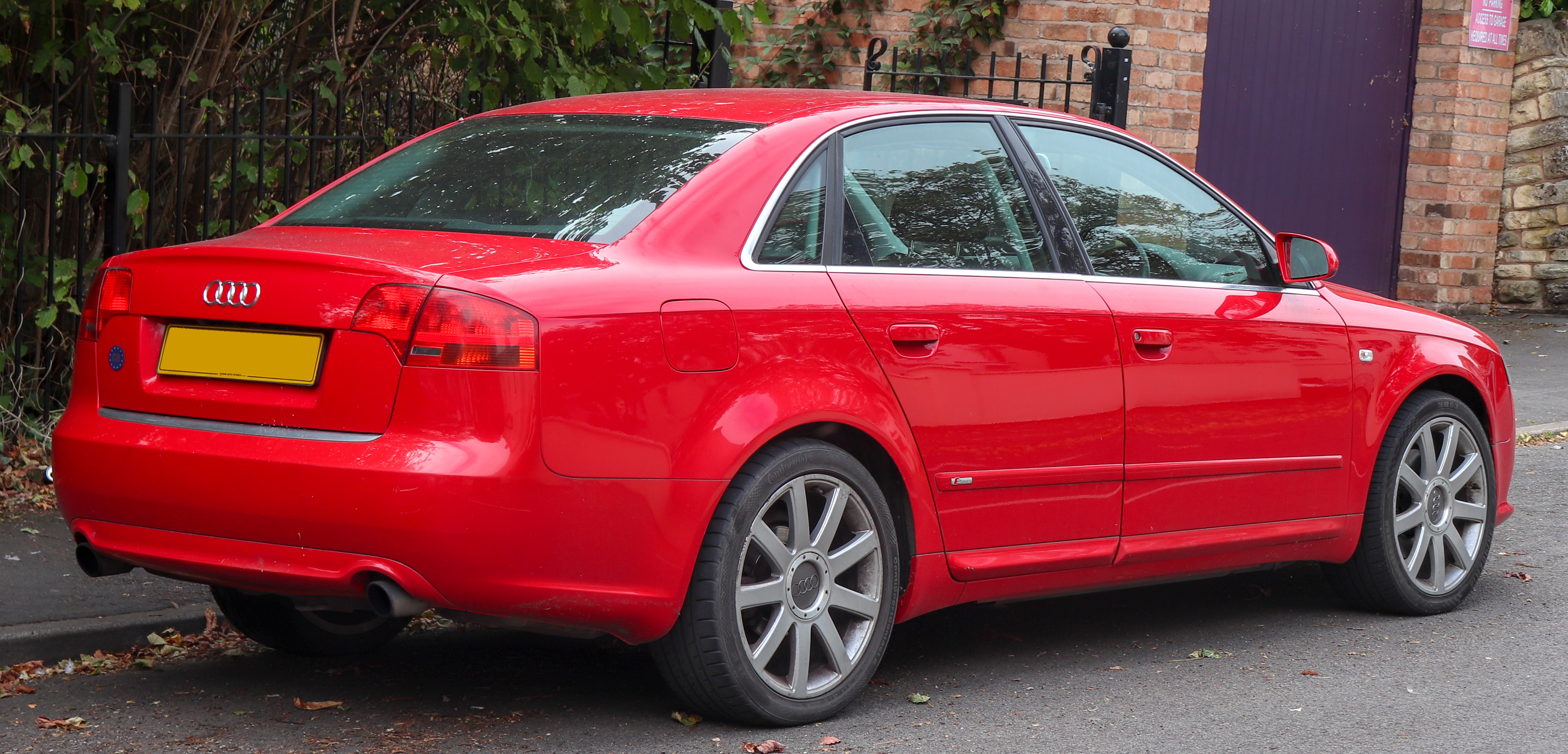 2005 Audi A4 T S Line 1.8 Rear Taken in Leamington Spa